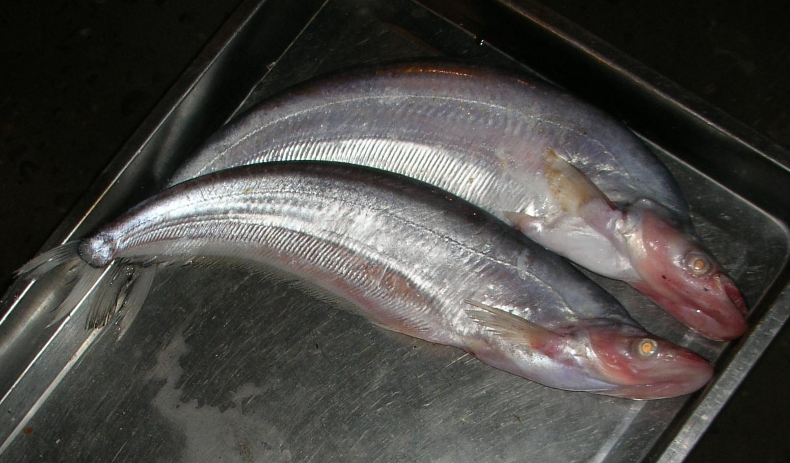 Phalacronotus bleekeri (วงศ์ปลาเนื้ออ่อน) at the market in Chiang Rai, Thailand